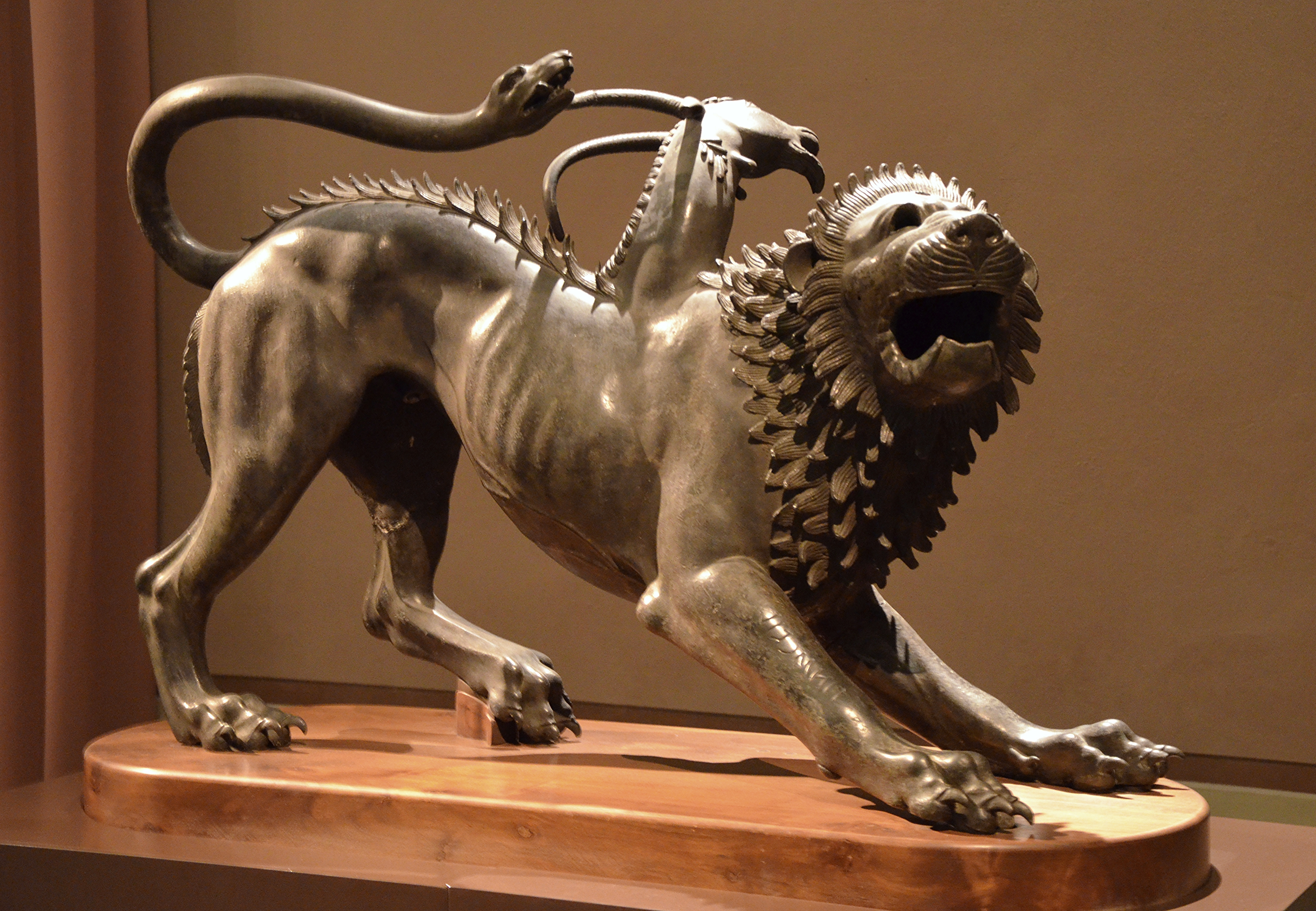 The Chimera of Arezzo, c. 400 BC, found in Arezzo, an ancient Etruscan and Roman city in Tuscany, Museo Archeologico Nazionale, Florence